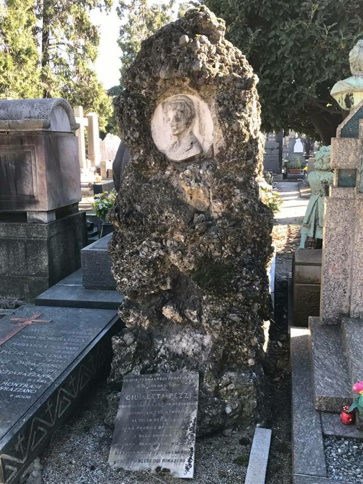 Giulietta Pezzi Tomb in the Monumental Cemetery in Milan